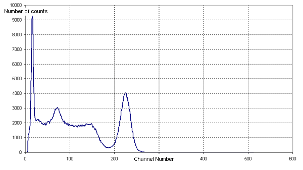 NaI Spectrum of Cs137